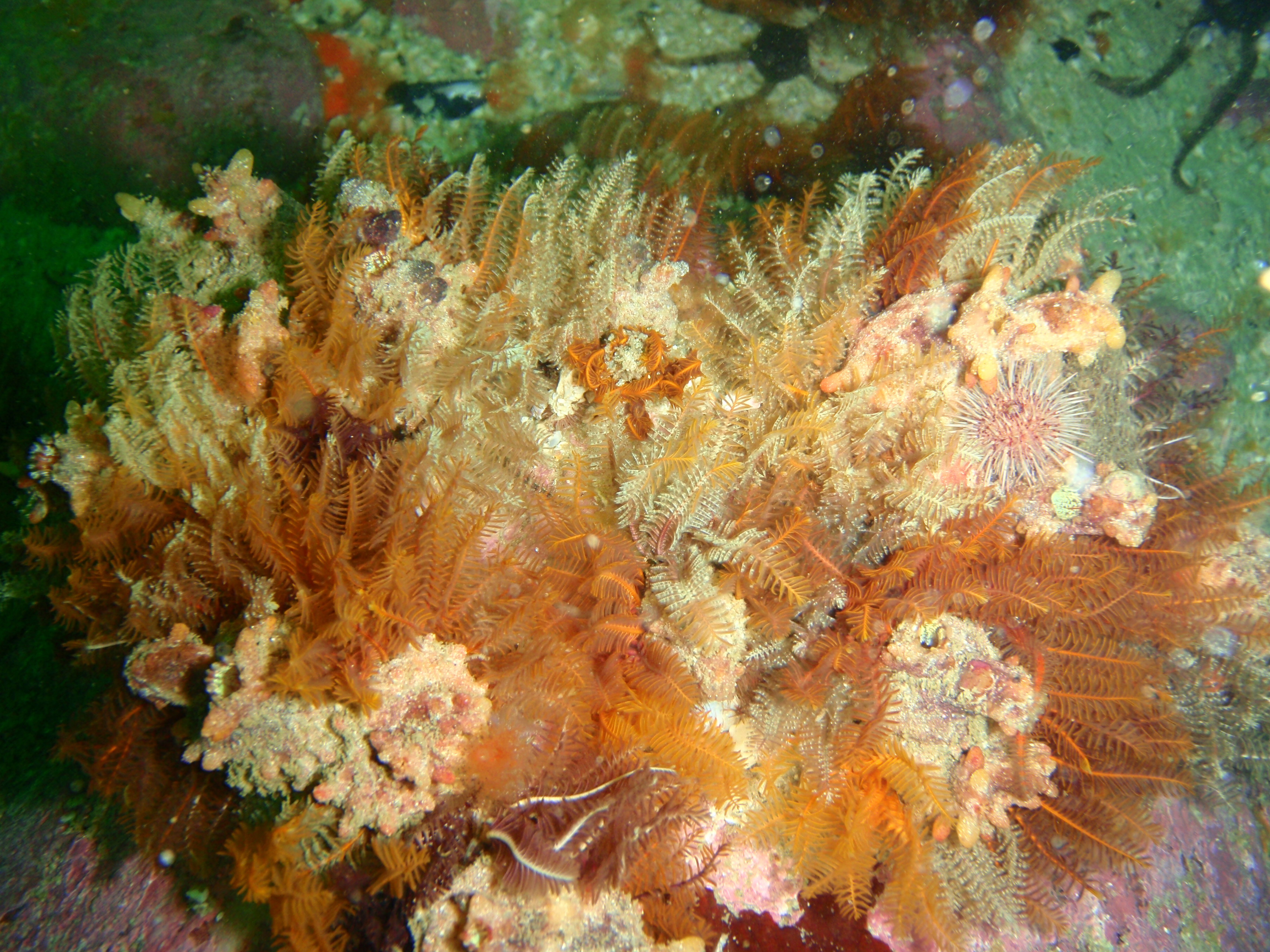 Common feather stars at Rocky Bay, at Steenbras River Mouth on the east side of False Bay